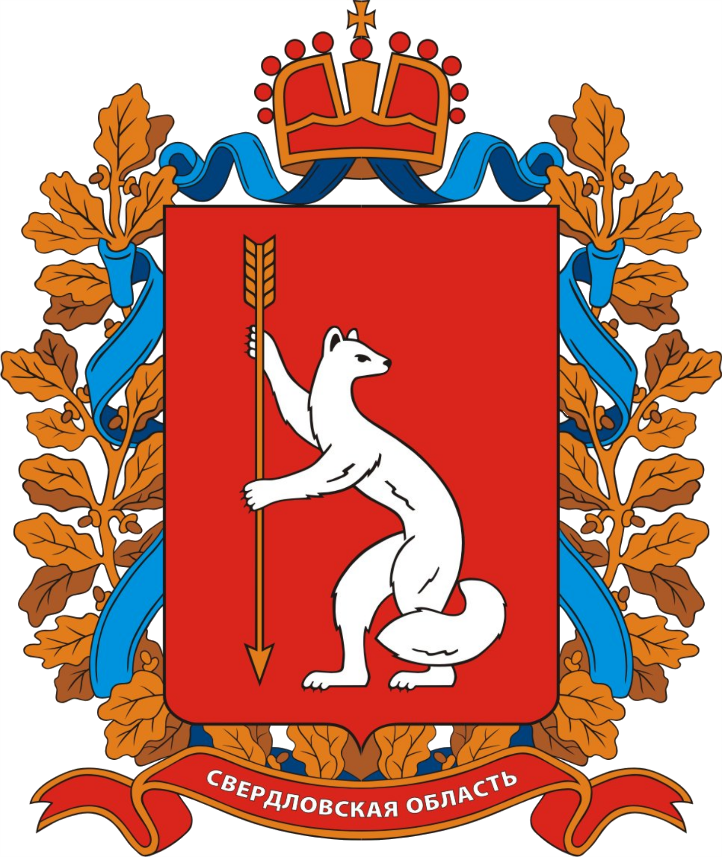 Sverdlovsk oblast, coat of arms (1997)